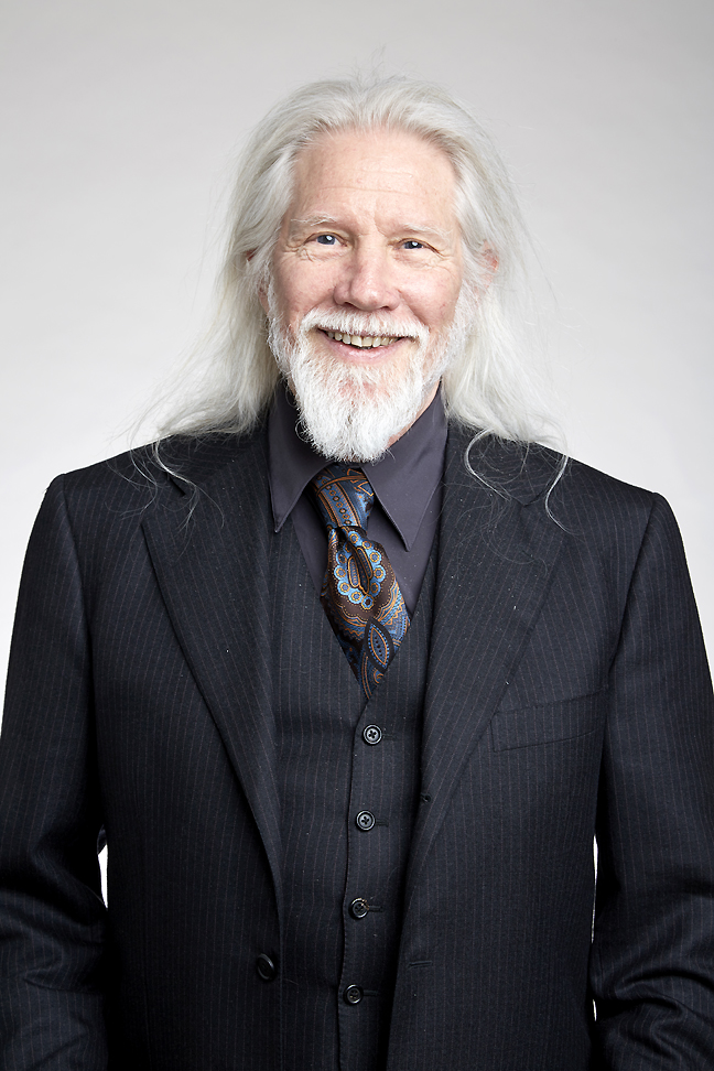 Bailey Whitfield Diffie (born June 5, 1944) is an American cryptographer and one of the pioneers of public-key cryptography. Attribution: The Royal Society